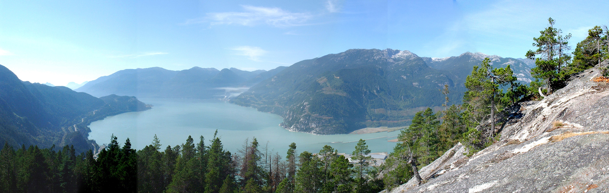 Taken from the summit of the Stawamish Chief in Squamish, British Columbia British Columbia Highway 99 is visible in the far distance on the left side of the photograph. the water body is Howe Sound.